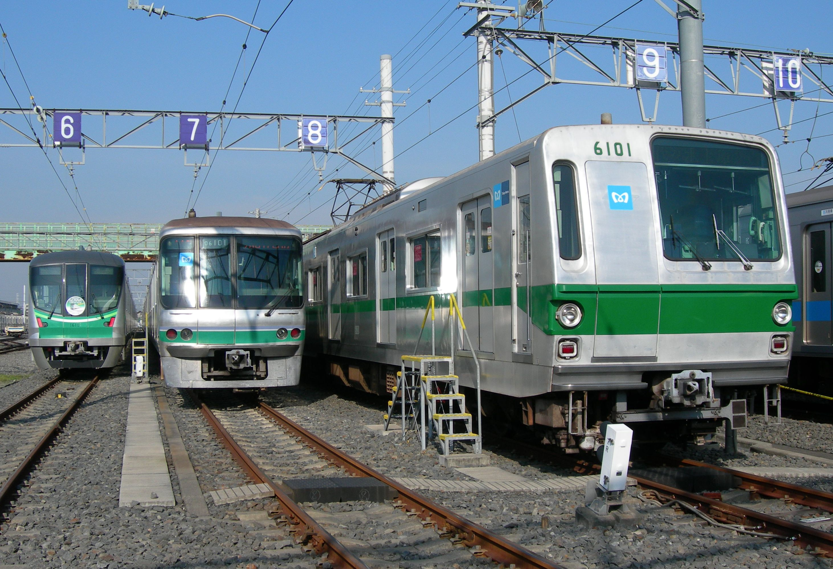 Tokyo Metro Chiyoda Line 16000, 06, and 6000 series EMUs lined up at Ayase Depot Open Day